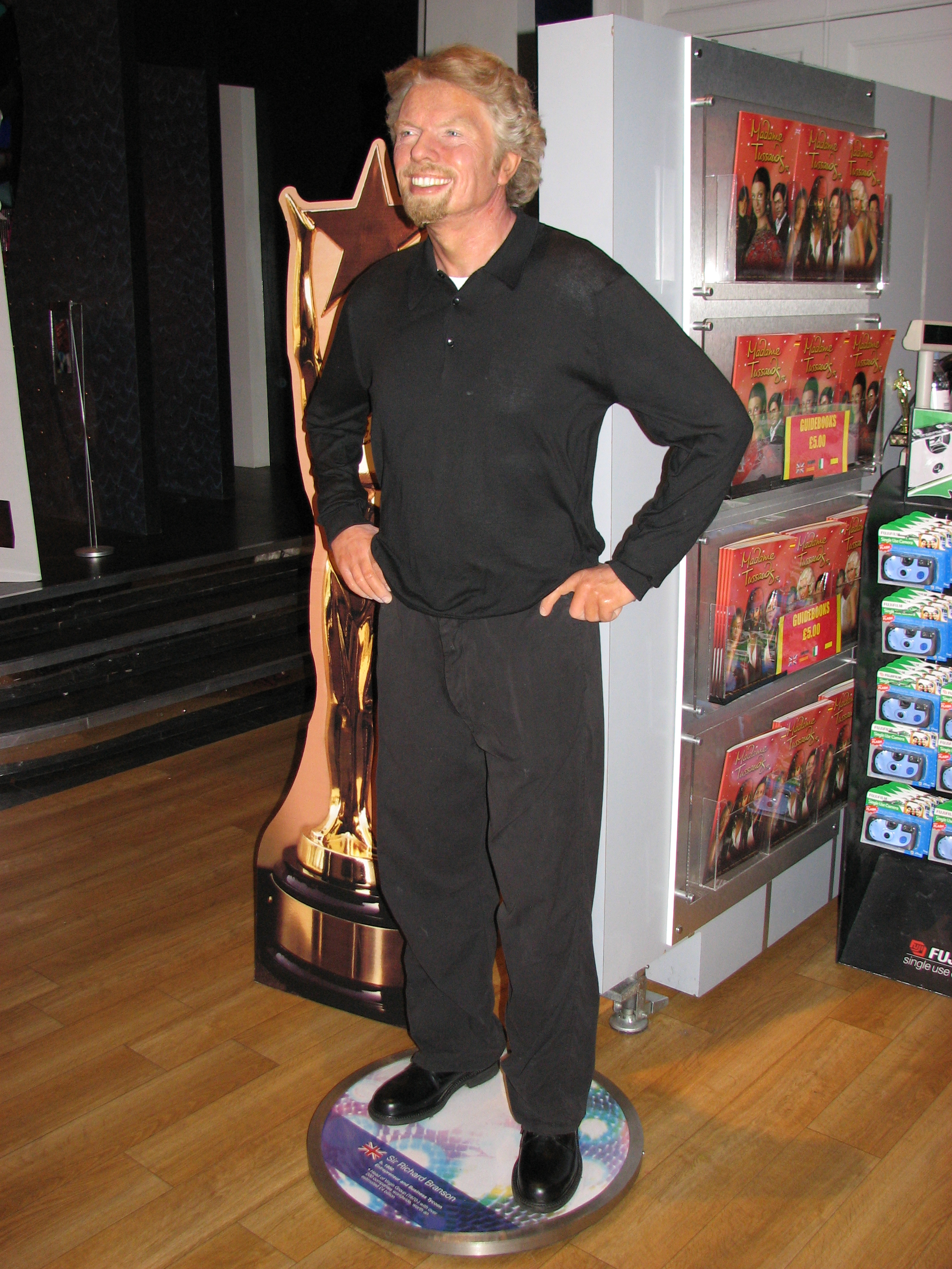 Sir Richard Branson